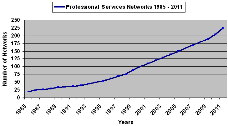 Permission to use granted by author. From: Professional Services Networks, Stephen McGarry